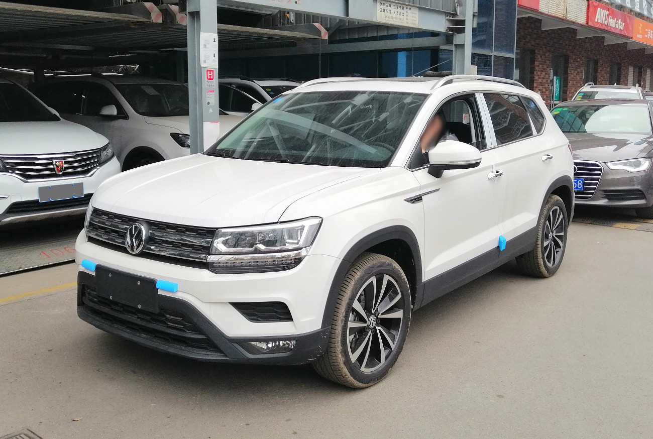 Volkswagen Tharu photographed in Shanghai, China.